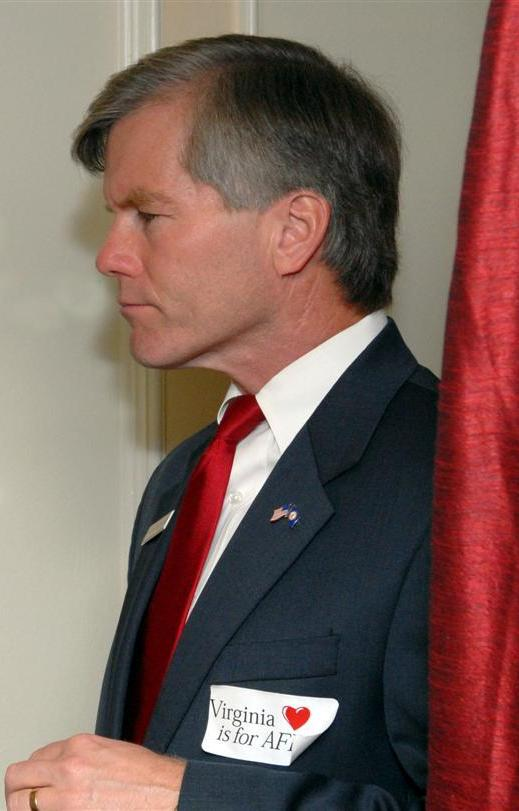 Jeri Thompson, wife of former senator Fred Thompson, speaks with Virginia Attorney Gen Bob McDonnell